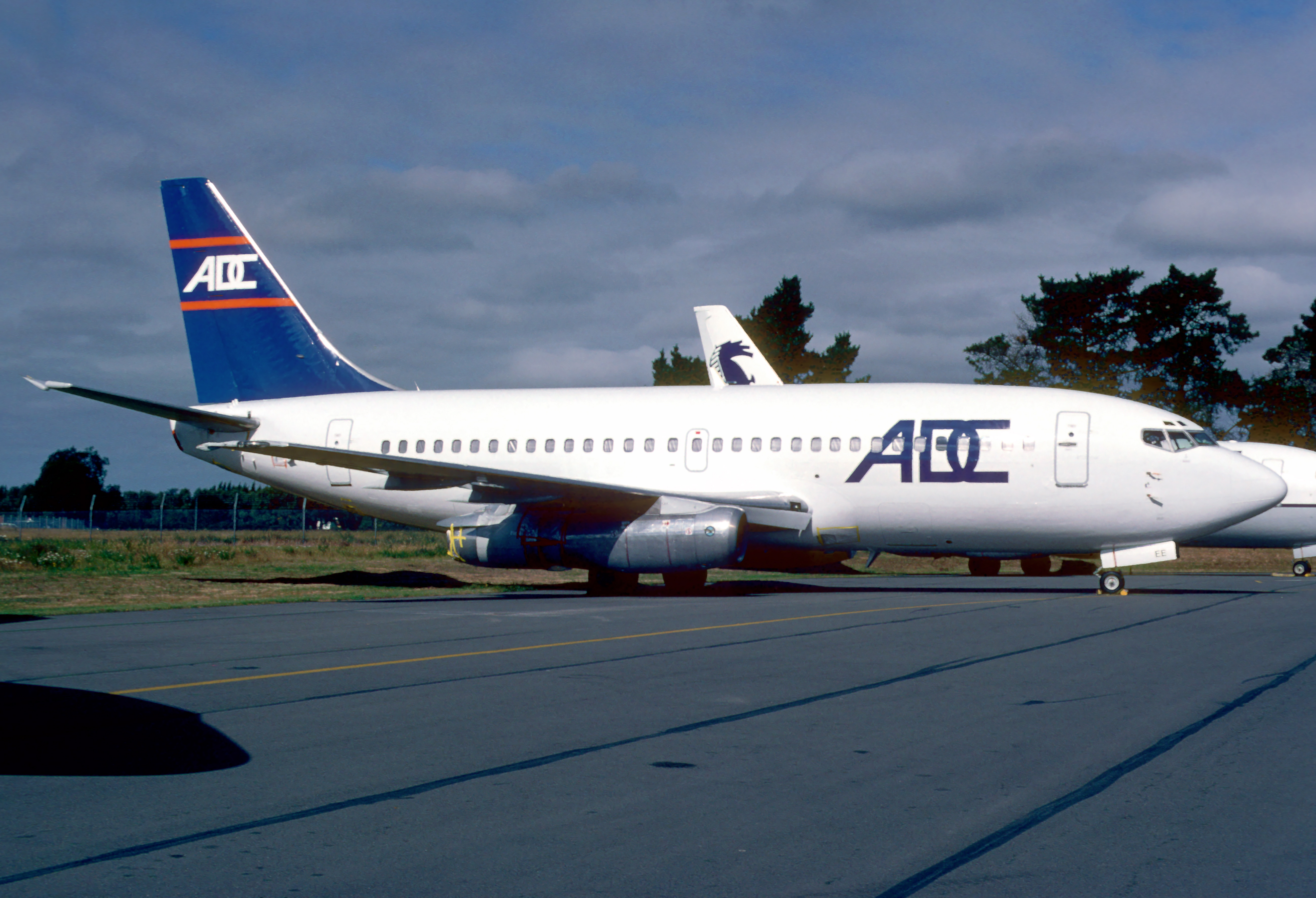 01/12/1980 Britannia Airways G-BHWF 19/01/1988 Air New Zealand G-BHWF 30/04/1988 Britannia Airways G-BHWF 14/12/1993 Air New Zealand ZK-NAI 06/05/2002 ADC Airlines 5N-BEE license withdrawn by Nigerian government 05/2007